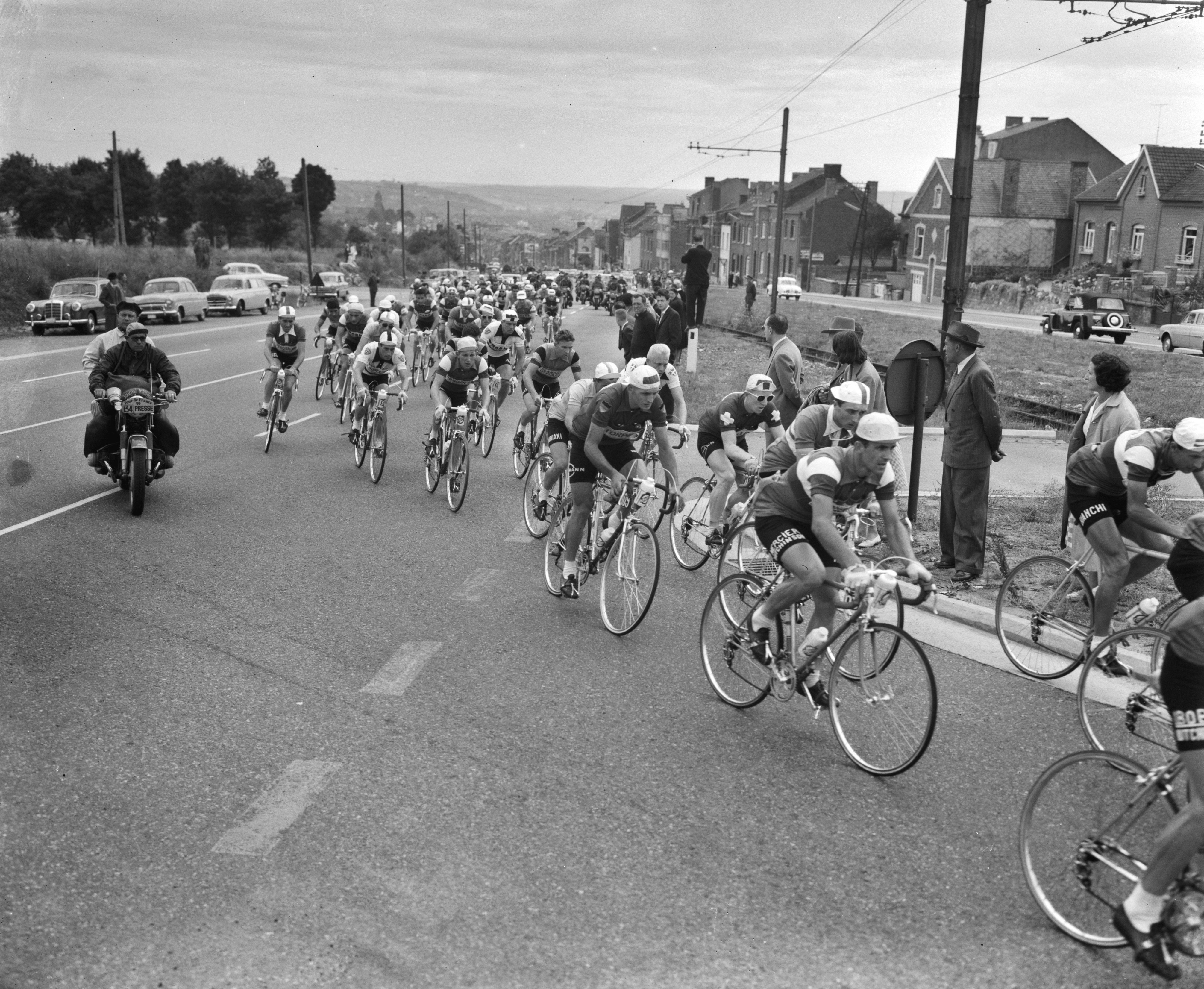 Tour de France, peleton, 3 July 1959